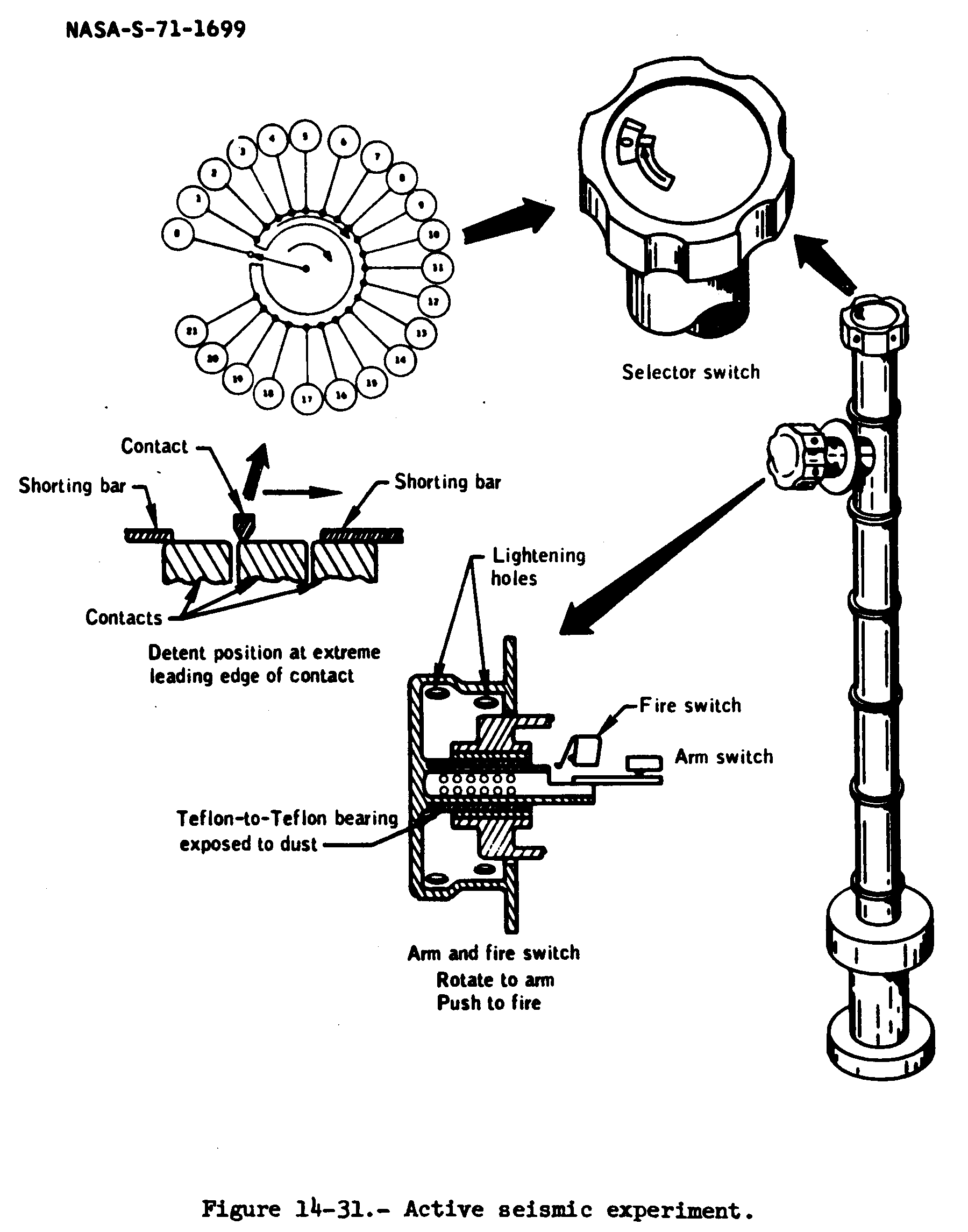 Diagram of the Thumper component of the Active Seismic Experiment of the ALSEP.